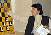 Nana Alexandria, Senior Chess World Championship 1999 at Gladenbach in Germany.